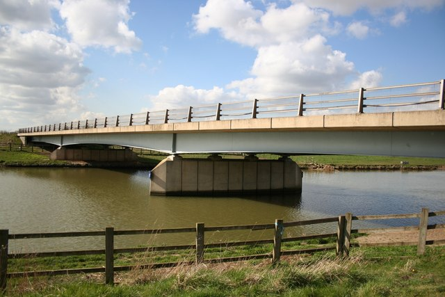 Welland Bridge: How the former A16 (now A1175) crosses the River Welland